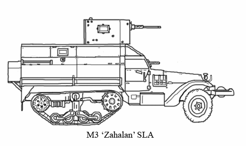 A M3 Half-track converted to a 'Zahalan' by the IDF, and used by the South Lebanon Army.